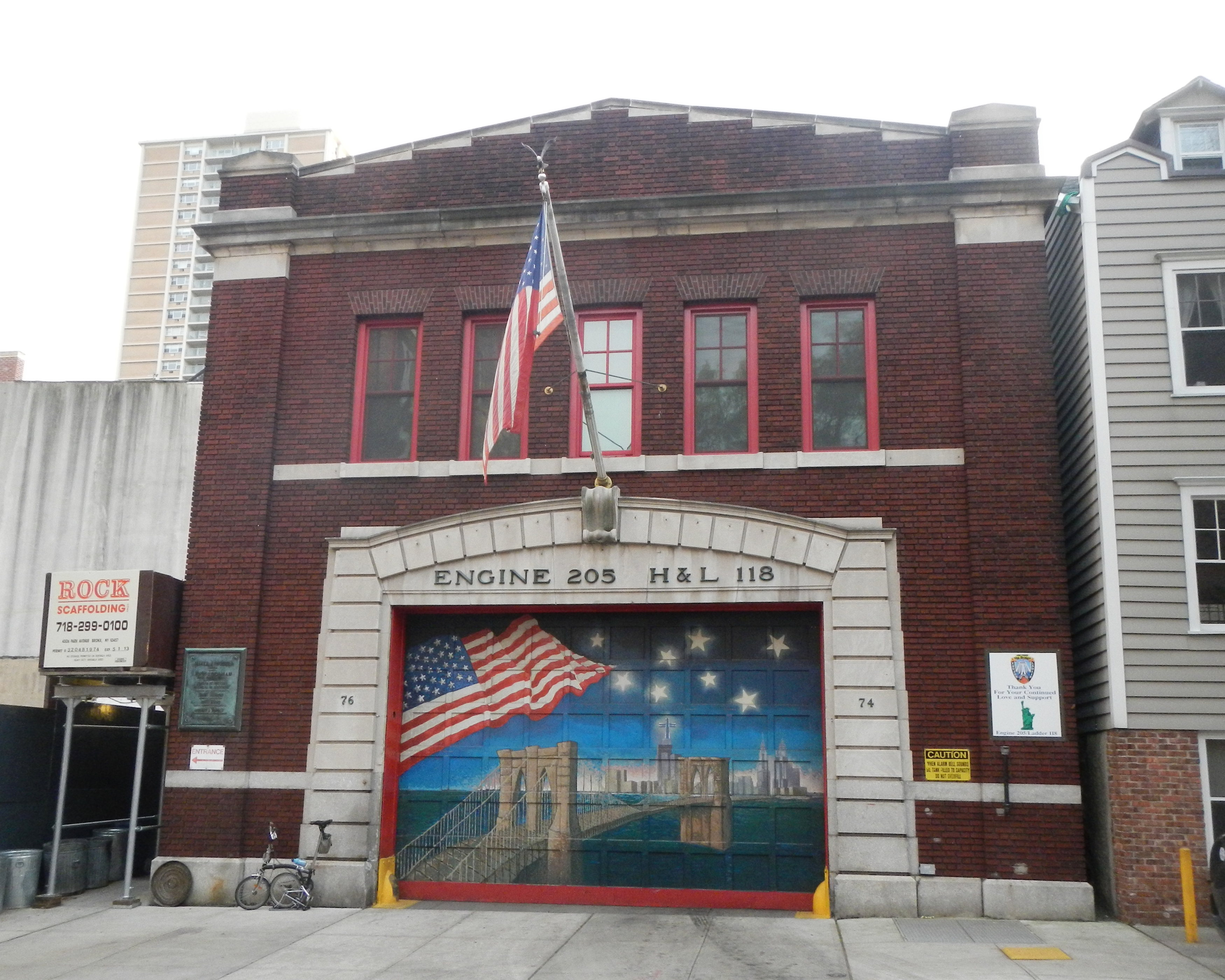 Looking south at Engine 205 house on a mostly cloudy late afternoon.